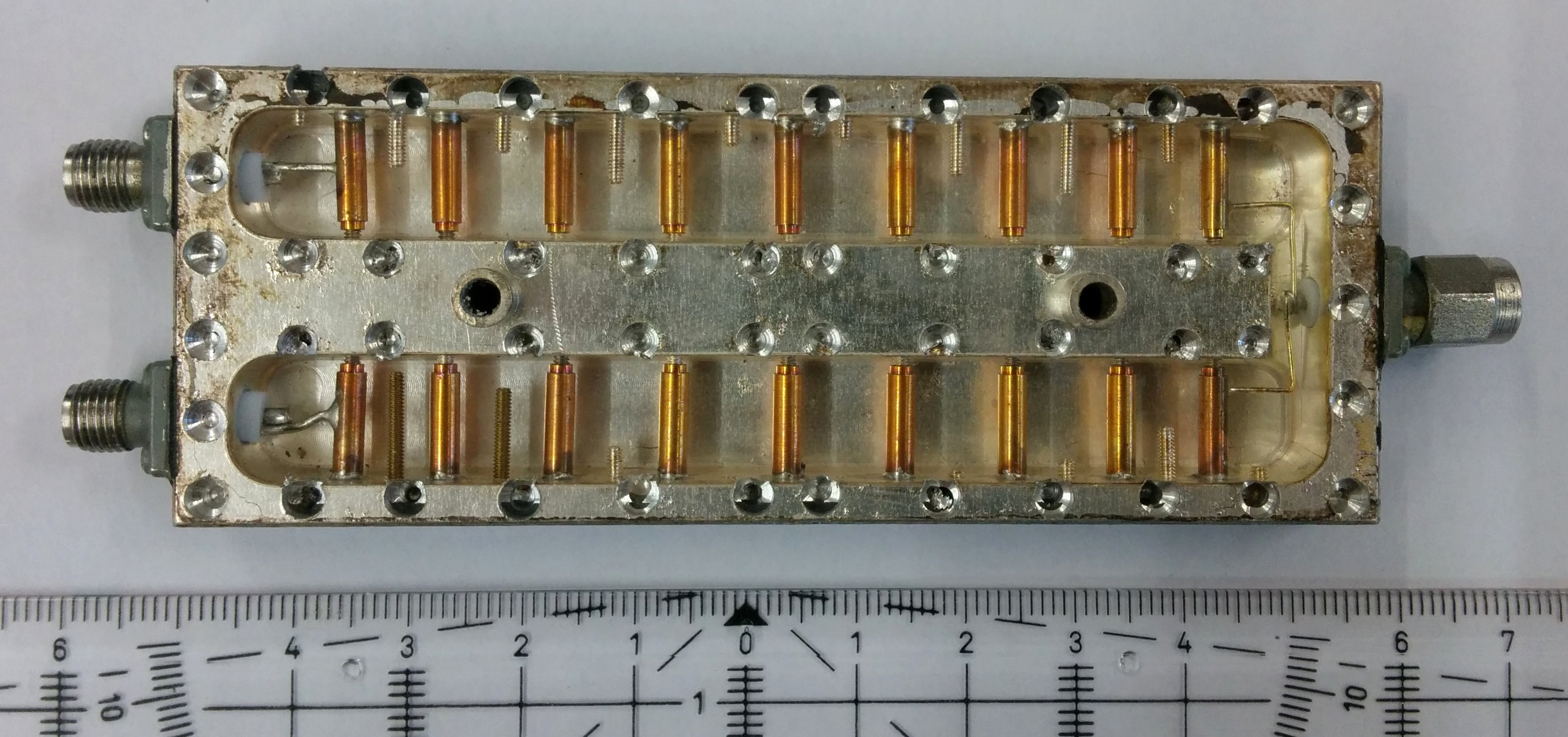 A disassembled RF diplexer for ~5 GHz with two dielectric resonator waveguide bandpass filters and nine transverse resonator stages per filter. Used to seperate the receiving RF signal from the transmitting RF signal, which use different frequency bands. The right SMA connector goes to the antenna, the two connectors on the left side goes to the transmitter and receiver respectively.